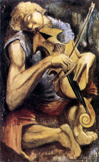 The Blind Fiddler by Peter Benjamin Graham, Oil On Canvas 81 x 51 cm, PGAF#25